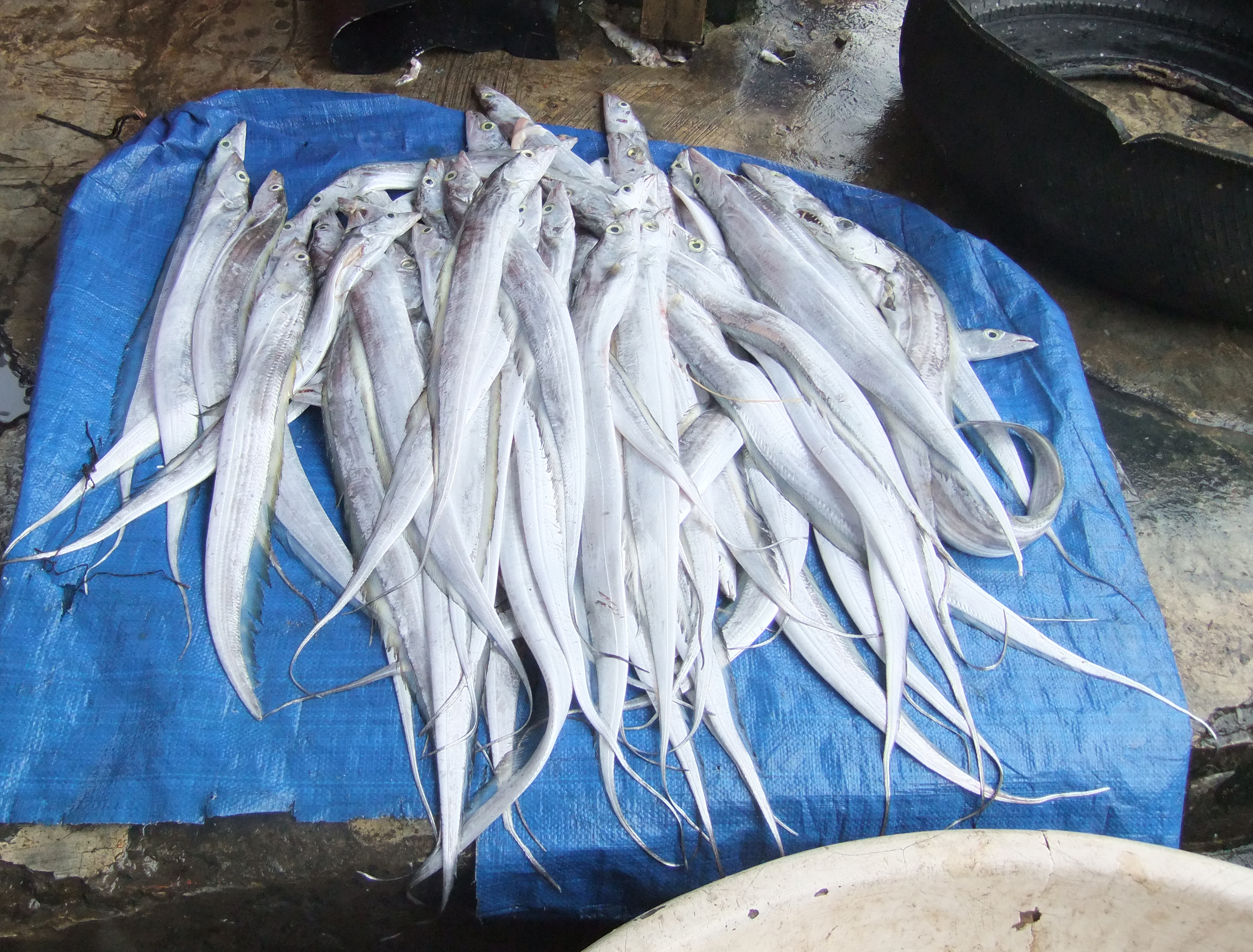 Layur (Trichiurus lepturus), Pelabuhan Ratu Fish Market, Sukabumi